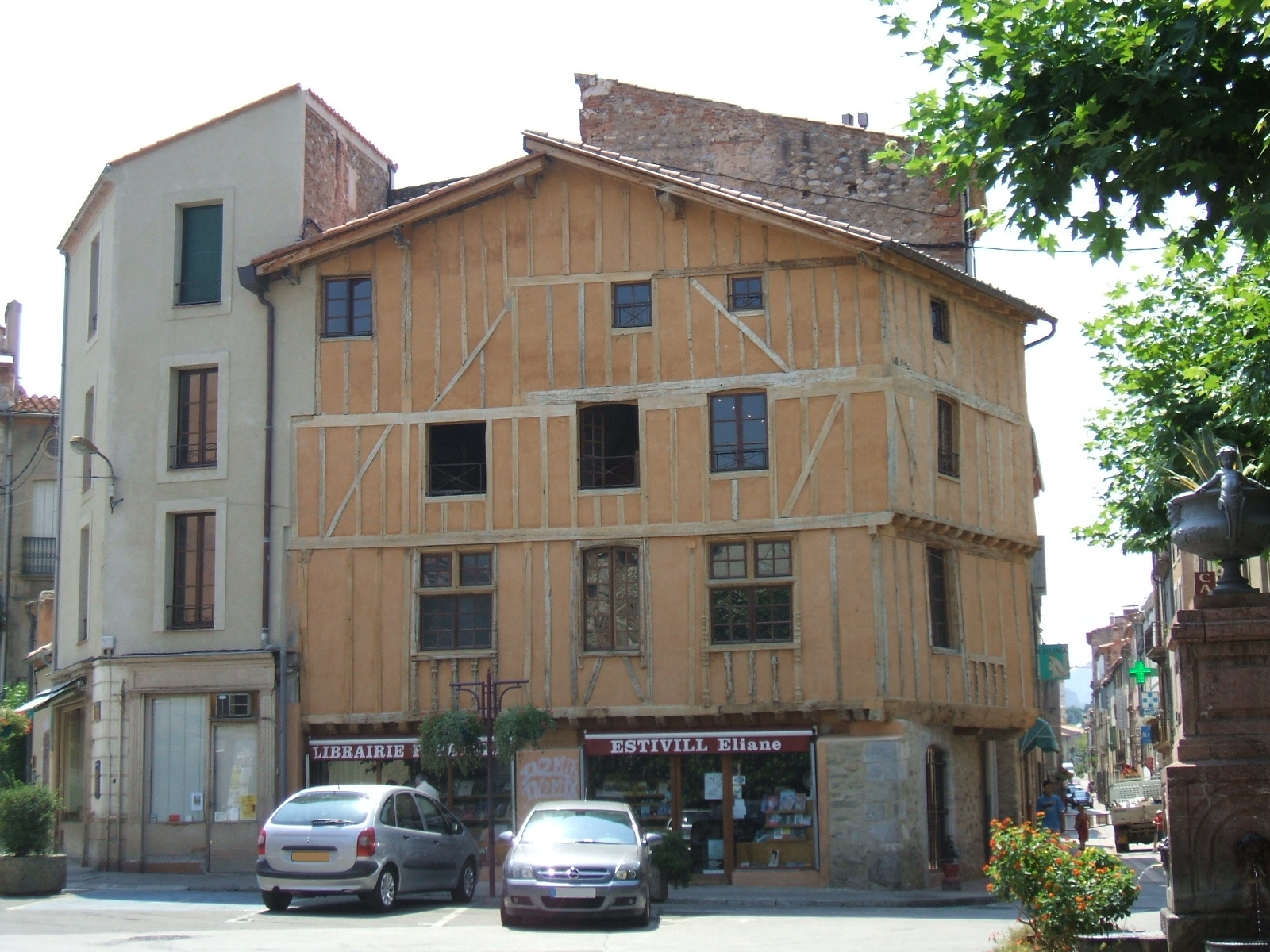 Prades : Jacomet House, dating back from the XVth century